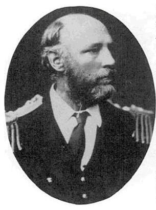 Old Photo of Captain James Elphinstone Erskine